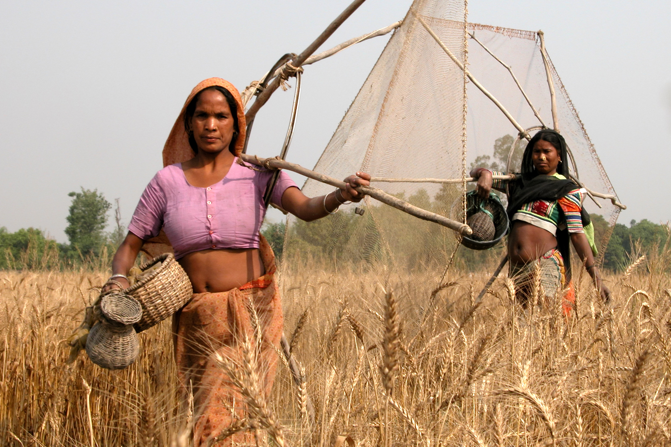 Rana Tharu women go fishing in southwest Nepal